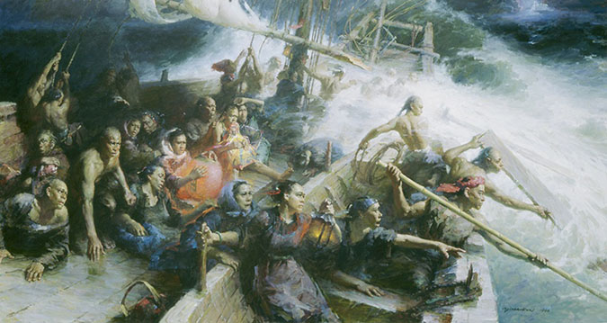 historical narrative painting of immigrants to Taiwan